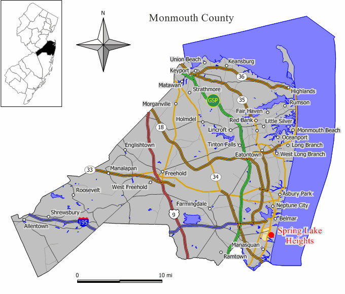 Source: Jim Irwin